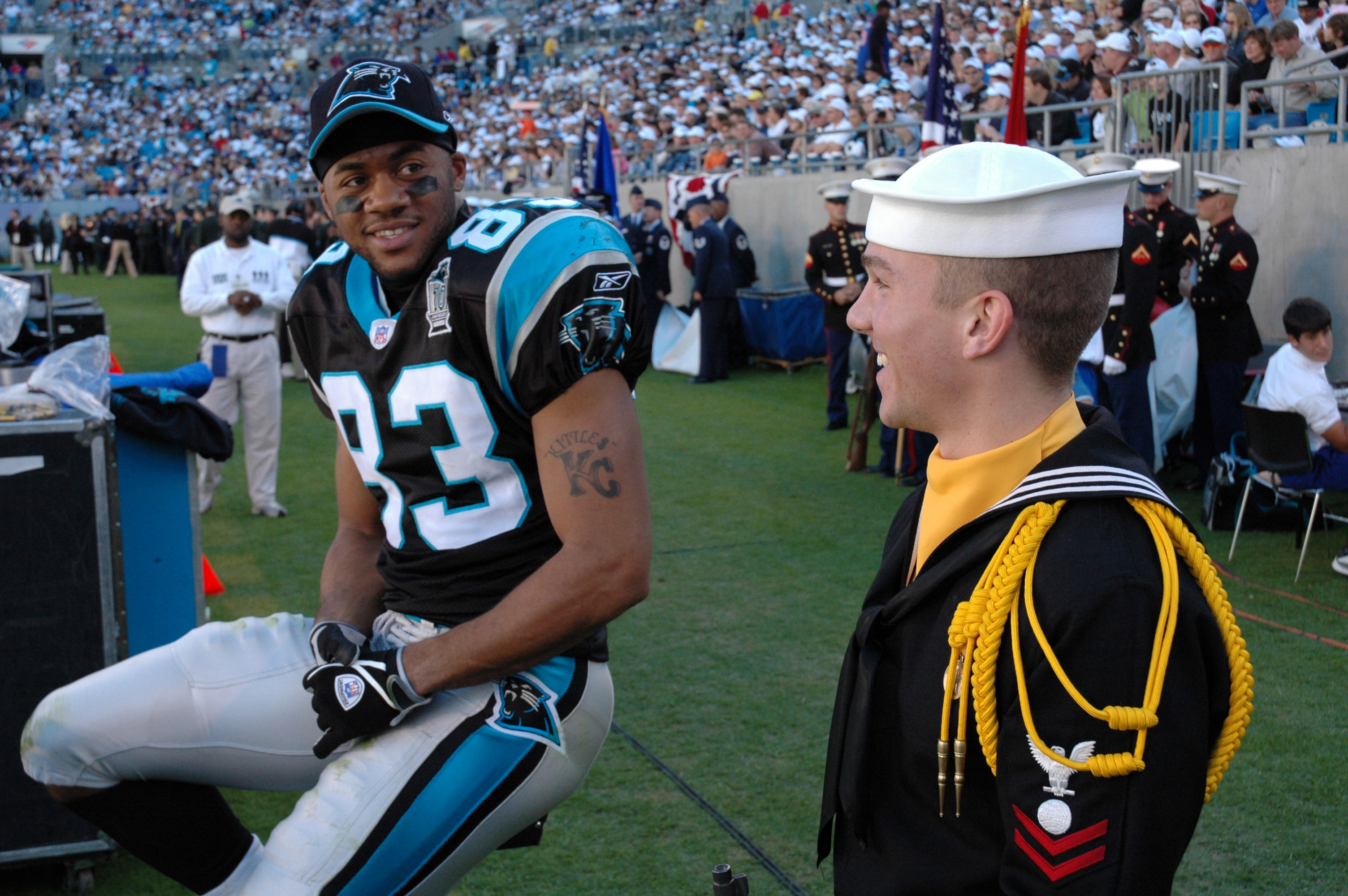 Keary Colbert talks with Electrician’s Mate 2nd Class Wayne C. Tyler during the Panthers football game Sunday against the Oakland Raiders in Charlotte, N.C. Tyler and other Sailors assigned to Pre-Commissioning Unit North Carolina (SSN 777), represented the U.S. Navy during a Veteran's Day tribute at halftime. North Carolina is the fourth Virginia-class attack submarine currently under construction at Northup Grumman Newport News shipyard, Newport News, Va.